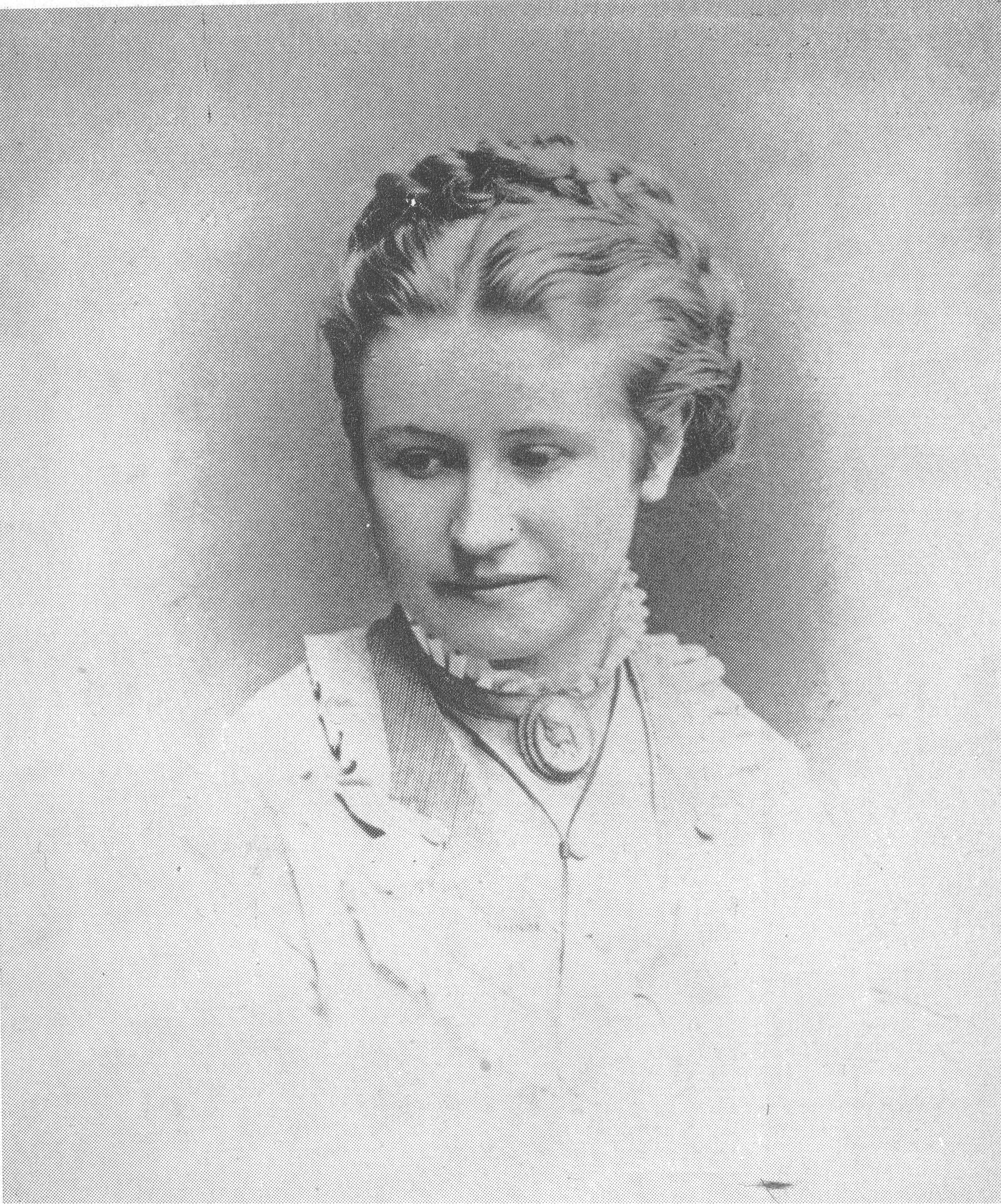 Eliška Krásnohorská. A photograph from 1870s